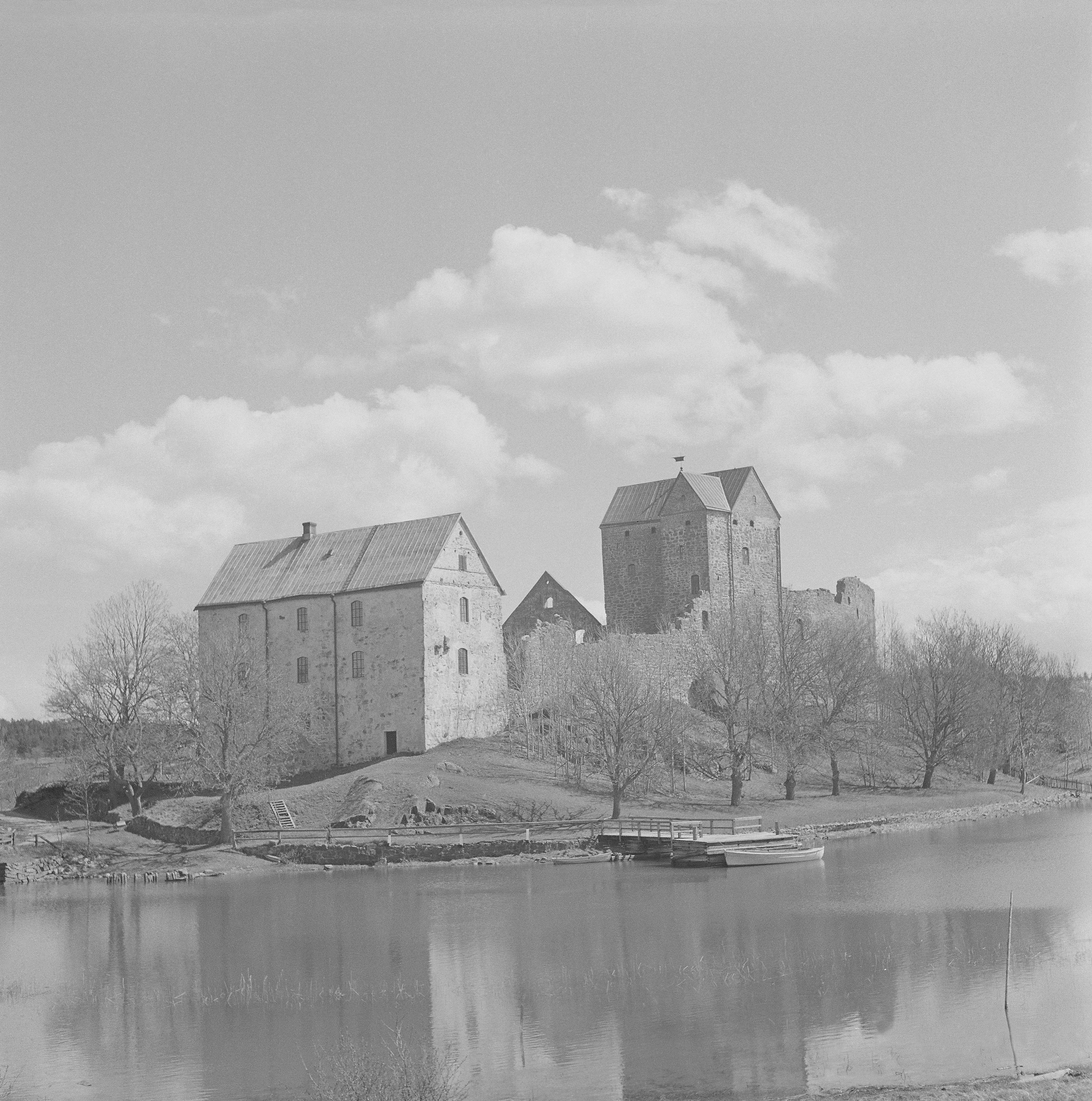 "The Kastelholm Castle." Picture by Military Official (fi: "sot. virk.") Eino Nurmi.